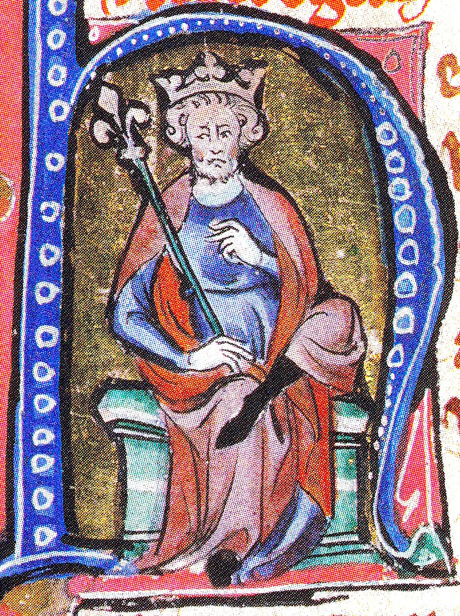 Canute the Great illustrated in an Initial of a medieval mansucript